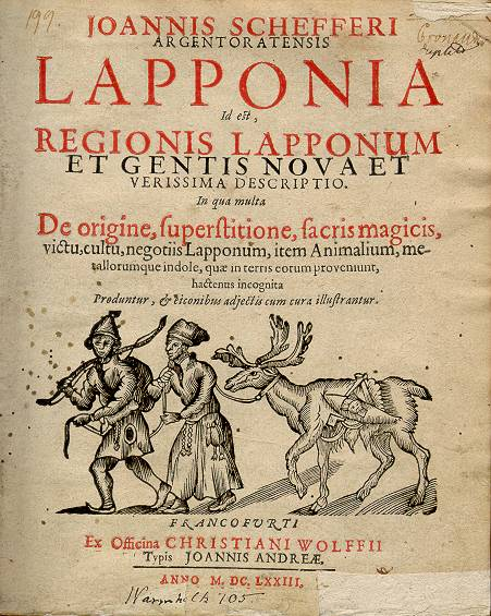 Lapponia